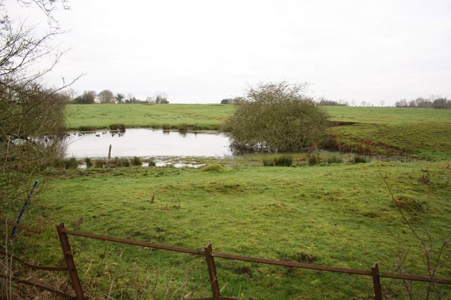 Minting Priory Pond and earthworks seen from Grundy's Lane marking the site of Minting Priory. Founded in 1129 by Ranulf, Earl of Chester for Benedictine monks, it was later granted to the Carthusian priory of Mount Grace.